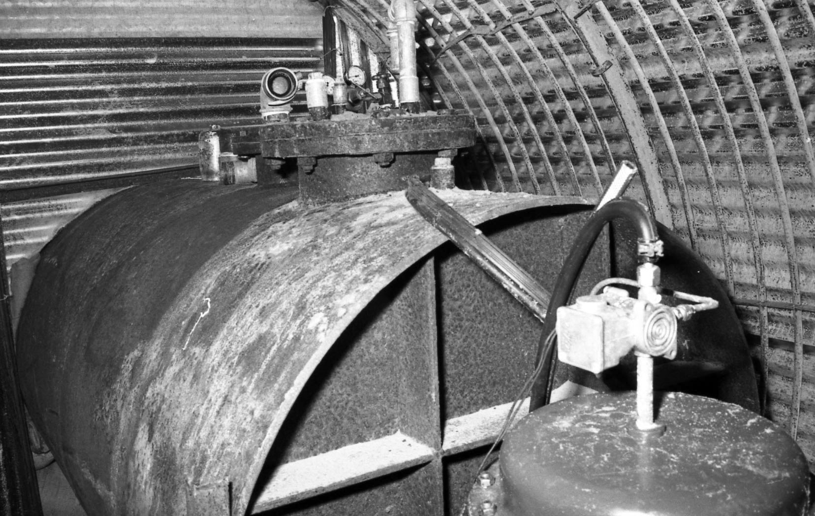 «Or Yekarot» (bright light) system, created to enable the IDF to set the Suez Canal ablaze. The system was a deception meant to deter the Egyptians from resuming their fire.